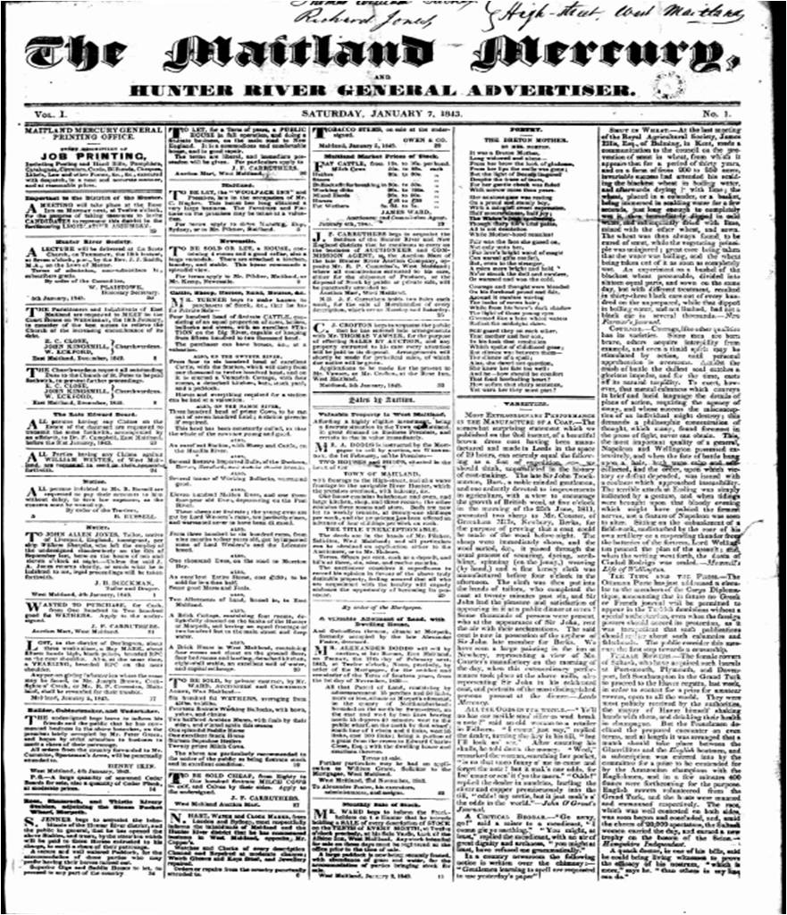 Coverpage of a historic newspaper from New South Wales, Australia.